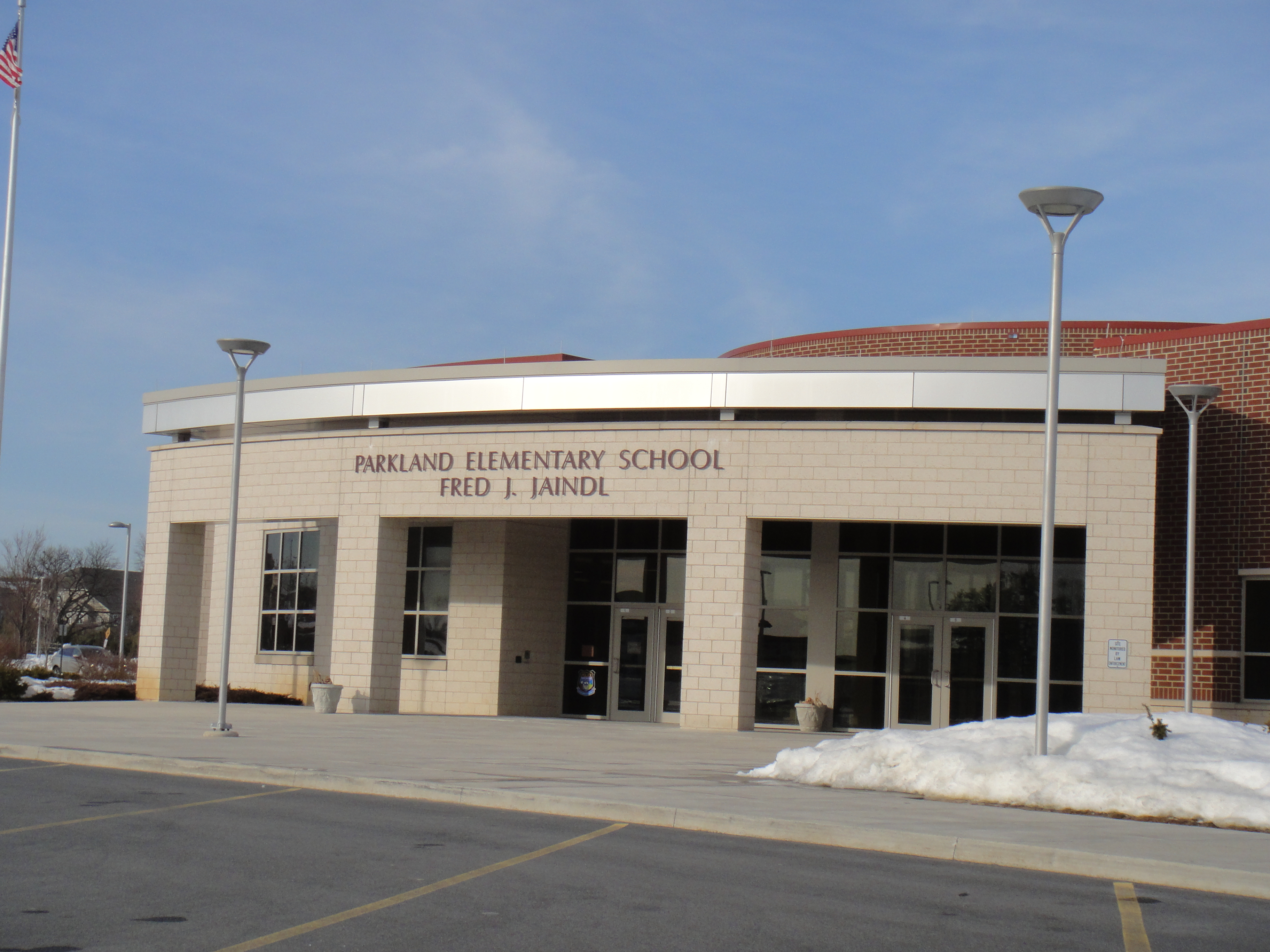 Fred J. Jaindl Elementary School, Parkland School District, Breinigsville, Pennsylvania